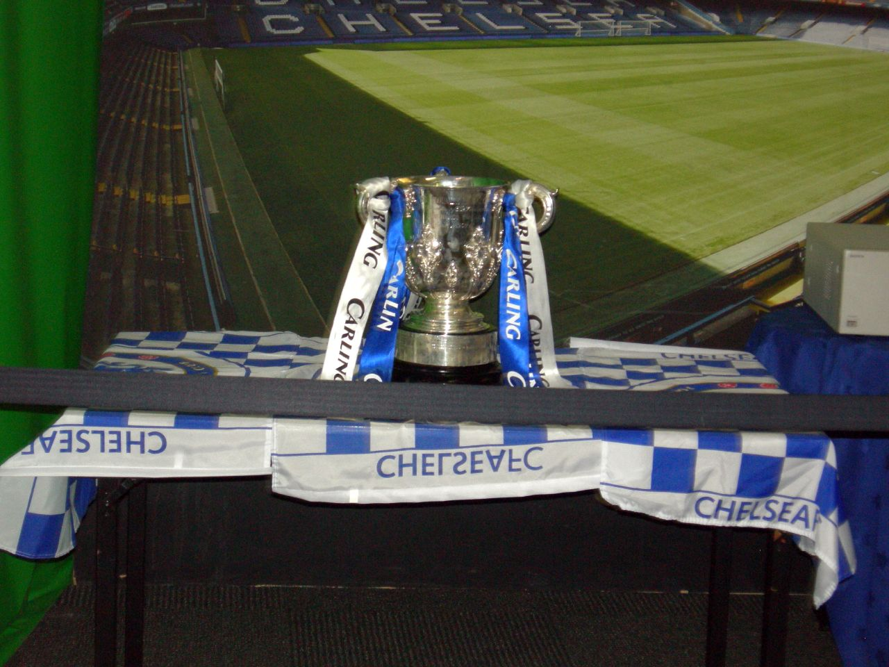 The Football League Cup at Chelsea F.C.